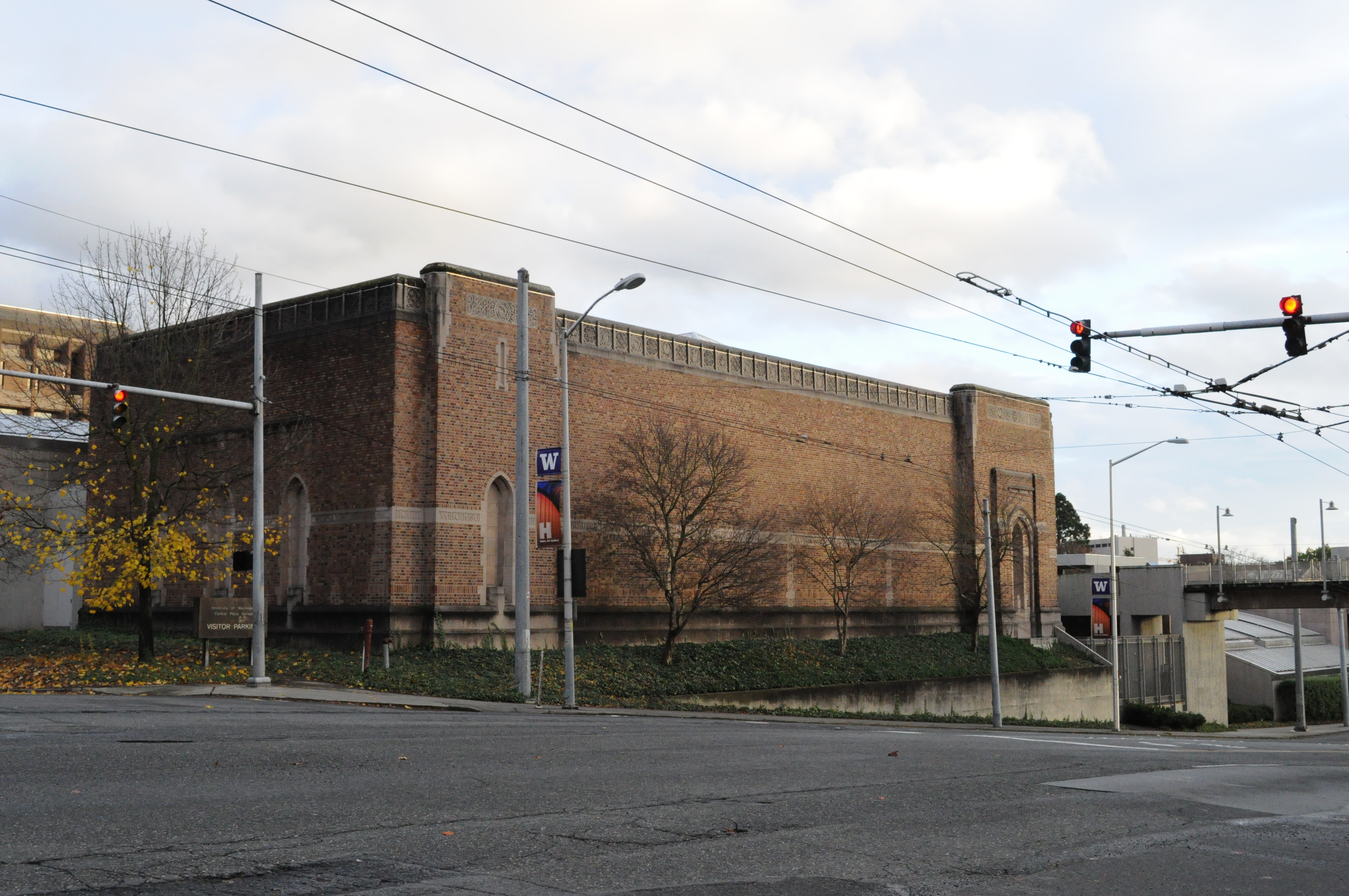 Henry Art Gallery, University of Washington, Seattle, Washington, USA.